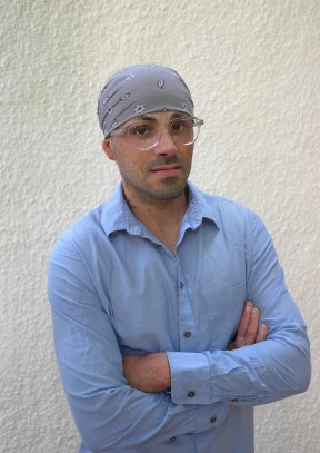 Portrait of Elad Lassry taken by Julianne Lee